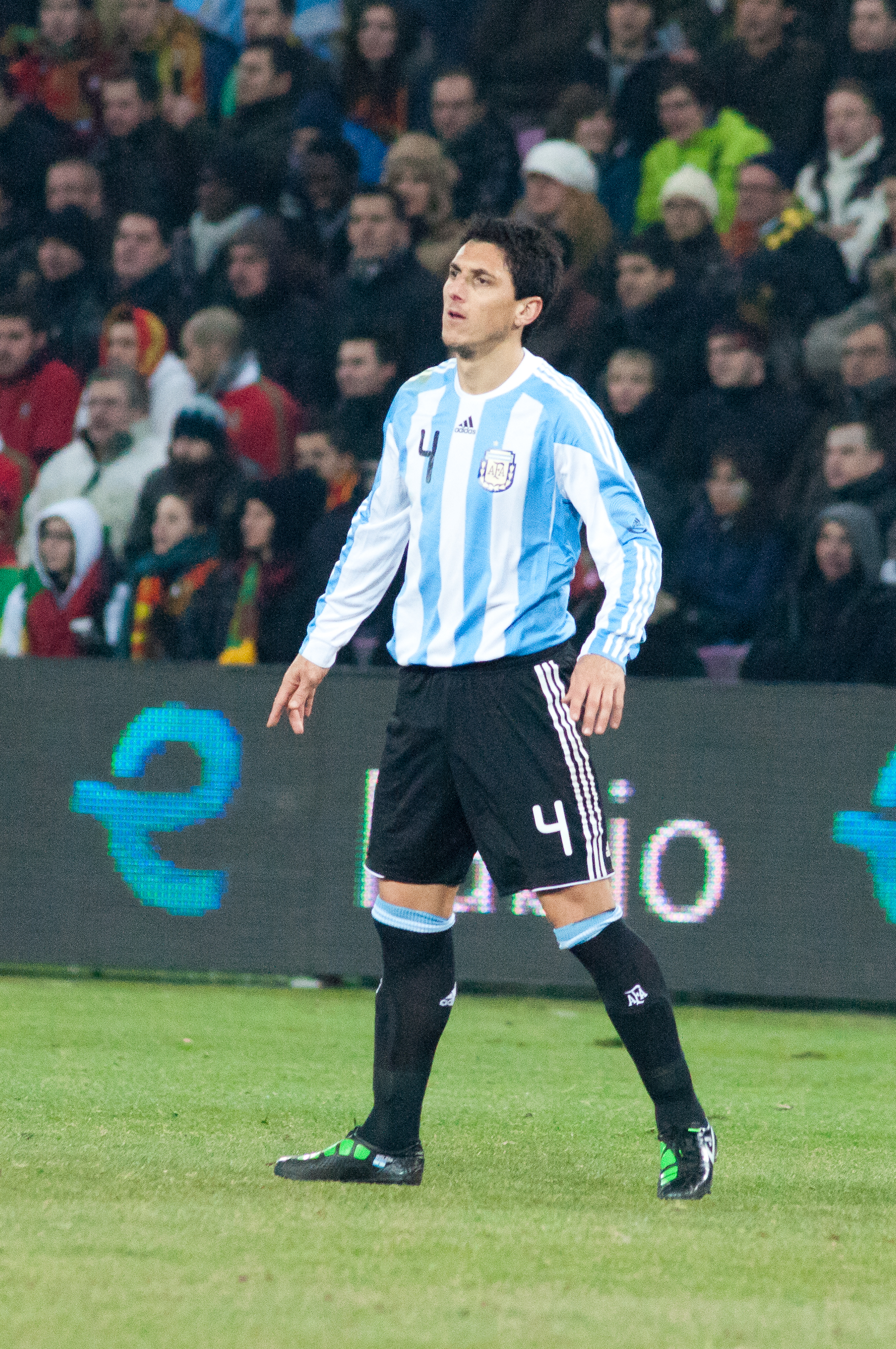 The making of this document was supported by Wikimedia CH. (Submit your project!) For all the files concerned, please see the category Supported by Wikimedia CH. Portugal vs. Argentina, 9th February 2011